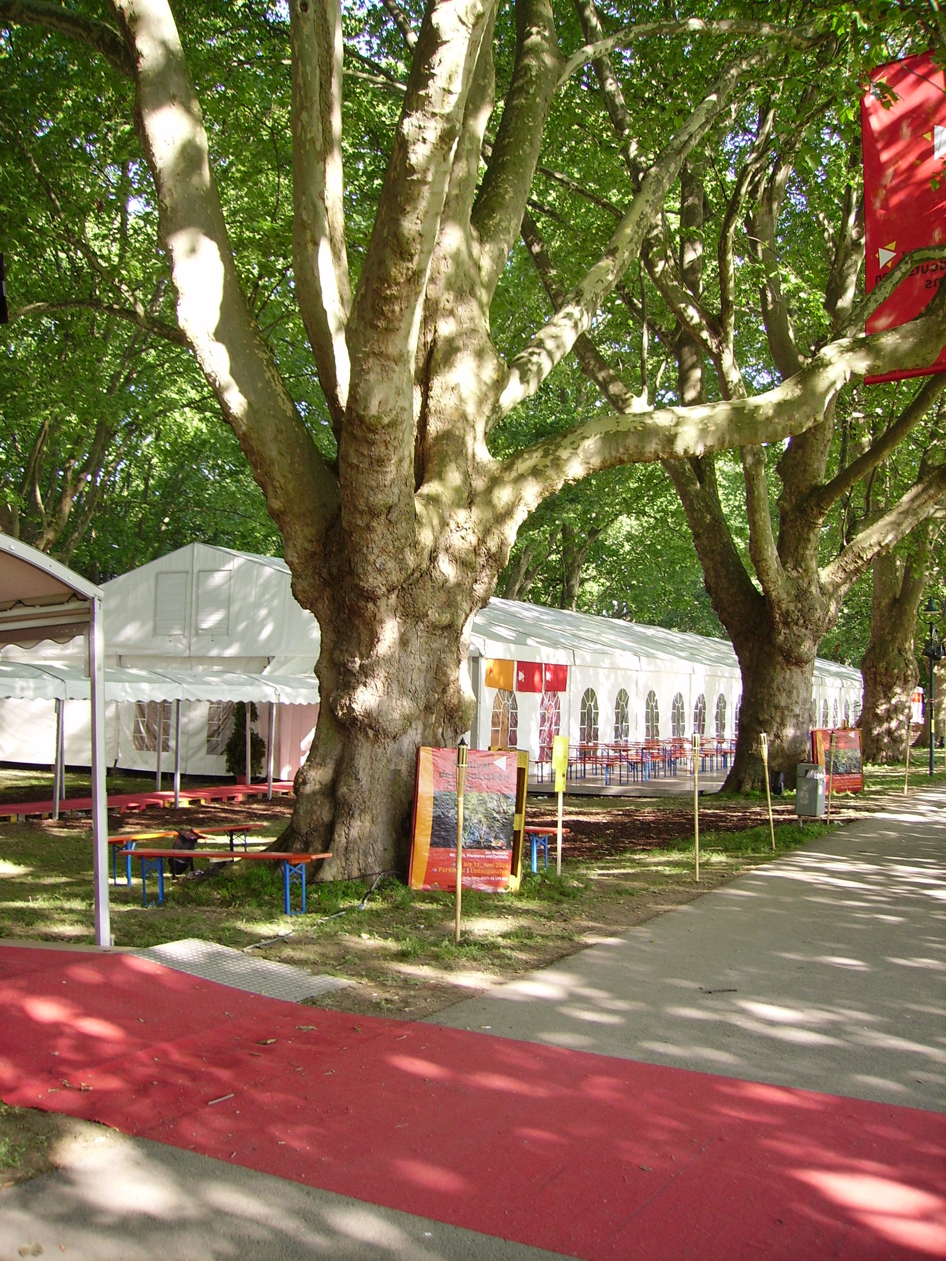 film festval in Ludwigshafen, Germany